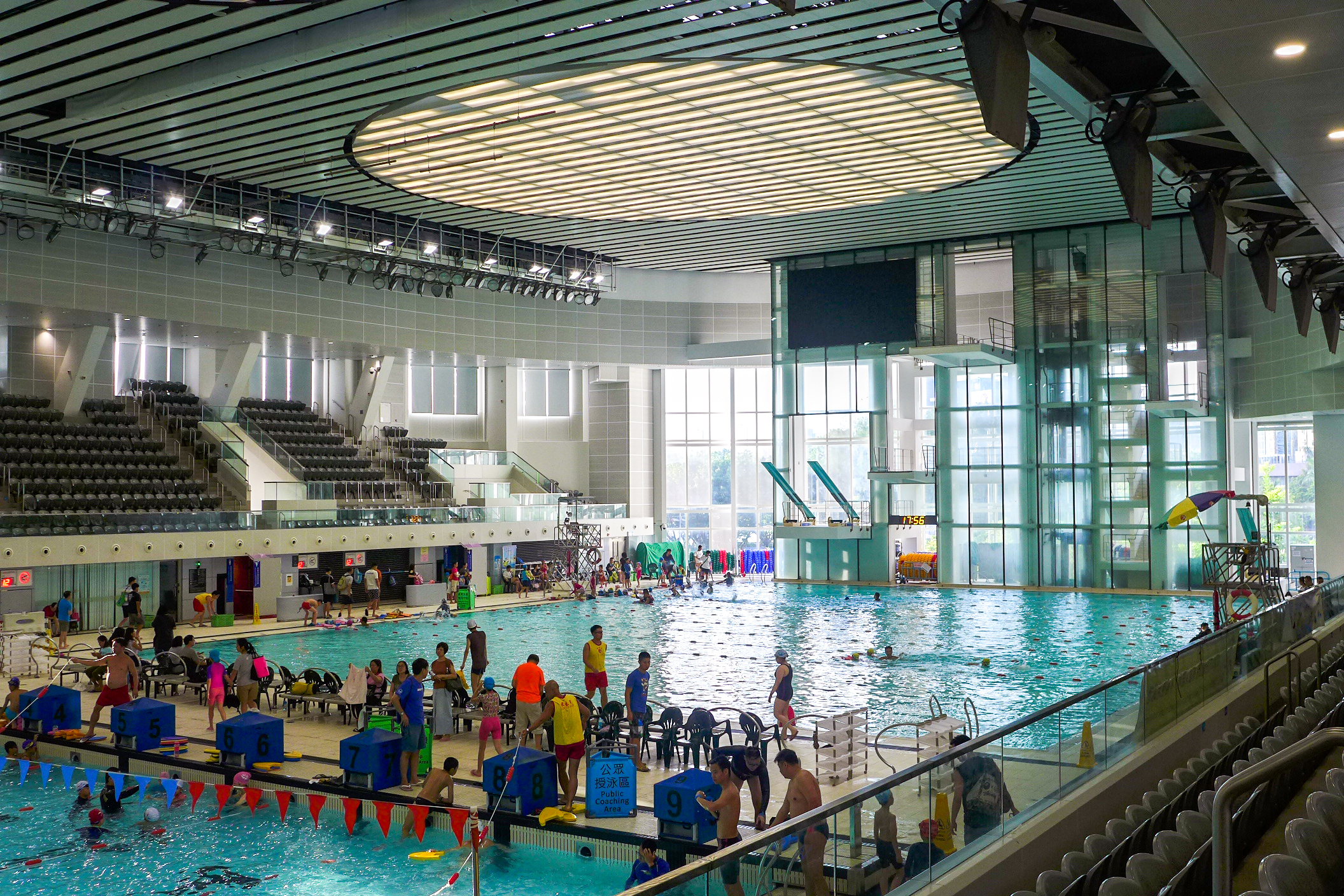 Victoria Park Swimming Pool Multi-purpose pool